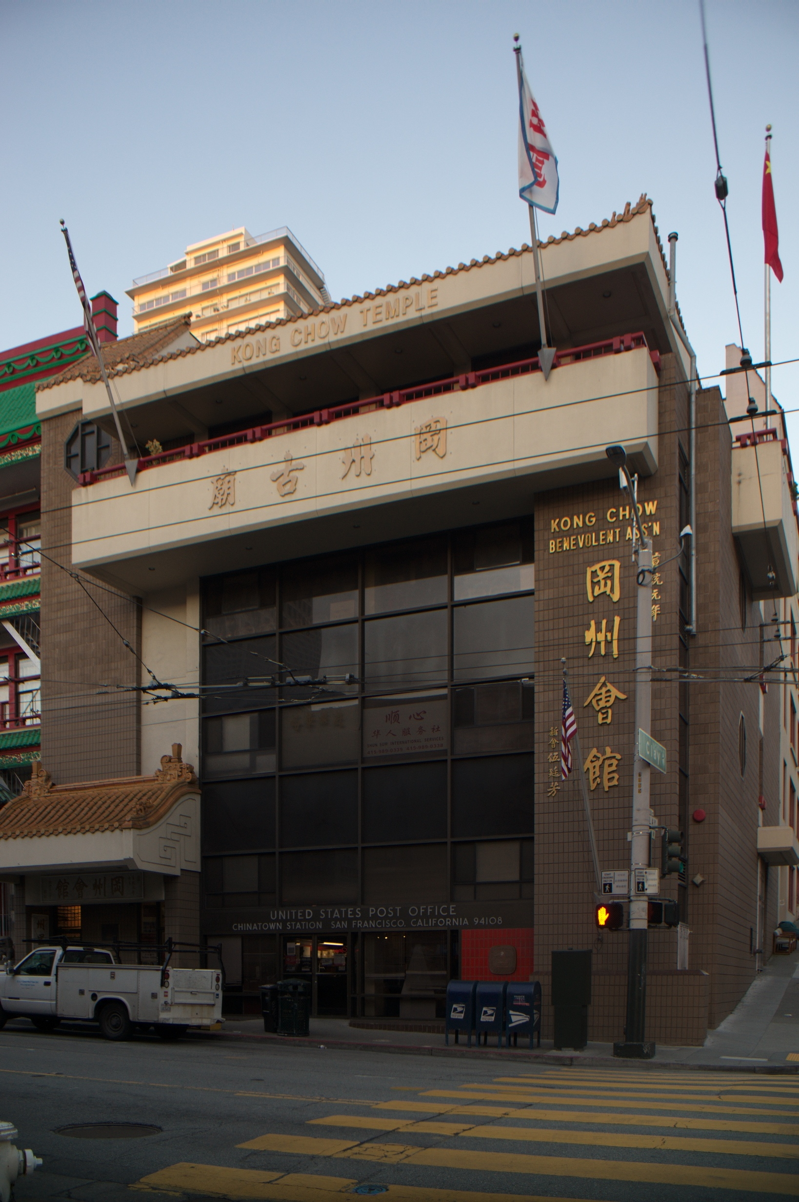 Kong Chow: temple on top, post office on bottom. Didn't realize it was next door to the Six Companies.